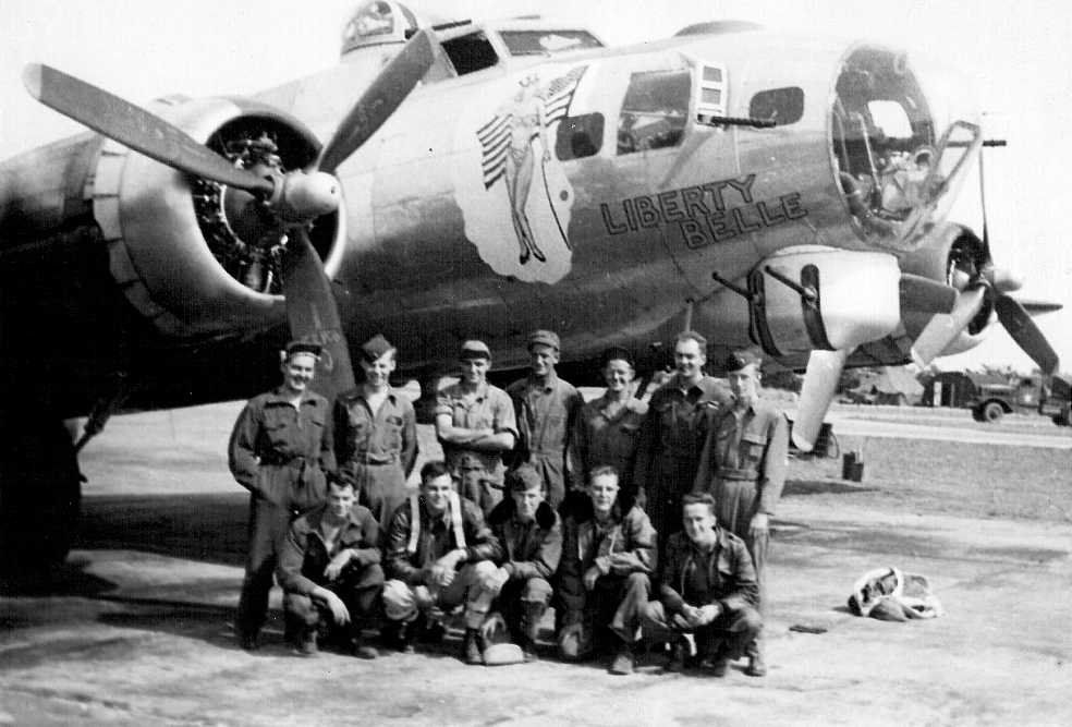 Liberty Belle, #43-38037 - B-17 of the 836th Squadron S/Sgt George R. Michael (radio operator) first on left front row was one of three men who survived. (photo provided by Jim Winkelmann)